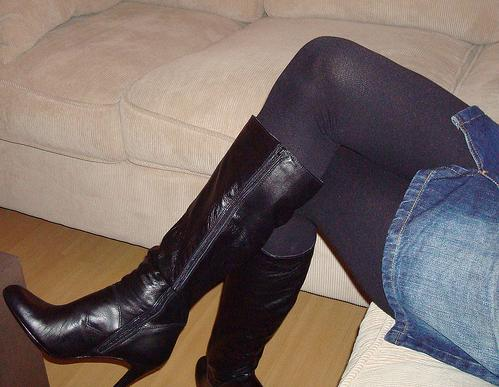 Female boots